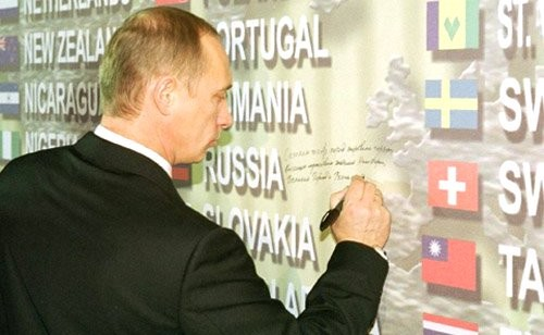 President Vladimir Putin making an inscription on the World Trade Center Memorial Wall, on the site of the 9/11 terrorist attack.